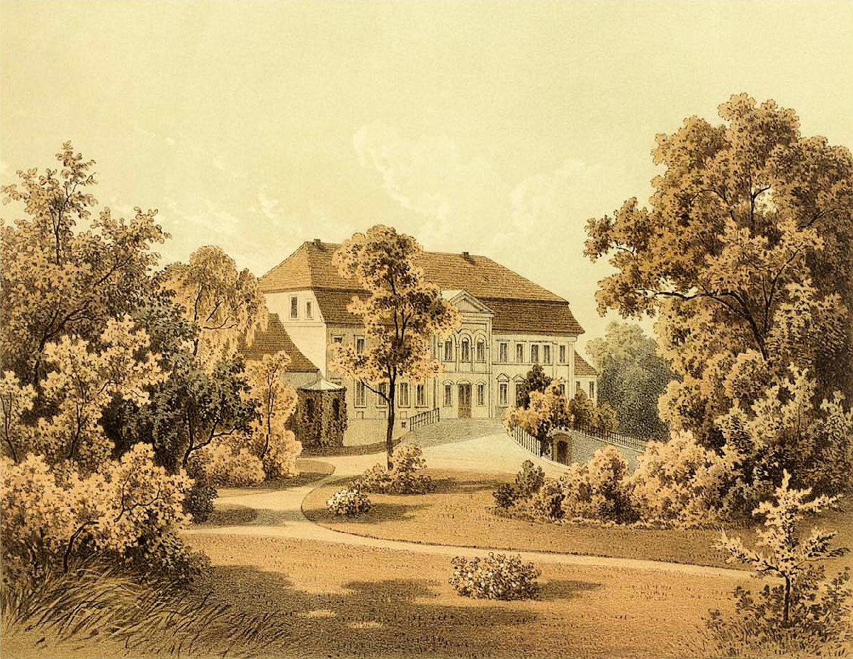 Palace in Roscin